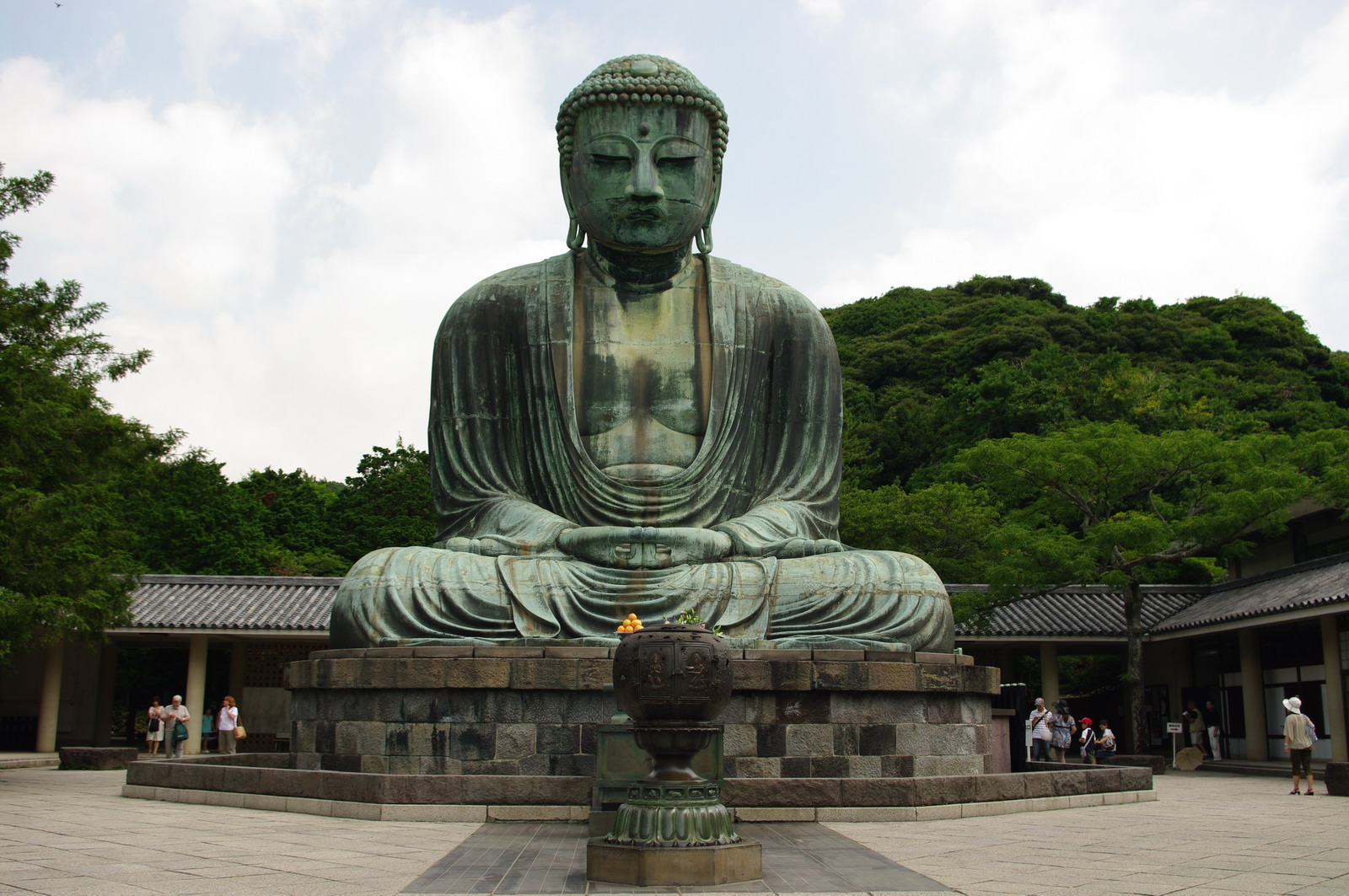 Kamakura Daibutsu of Kōtoku-in temple in Kamakura, Kanagawa.